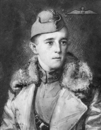 A hand coloured portrait of Andrew King Cowper, an aviator in the Royal Flying Corps during the First World War. An Australian by birth, Cowper achieved flying ace status during the war with 19 aerial victories.